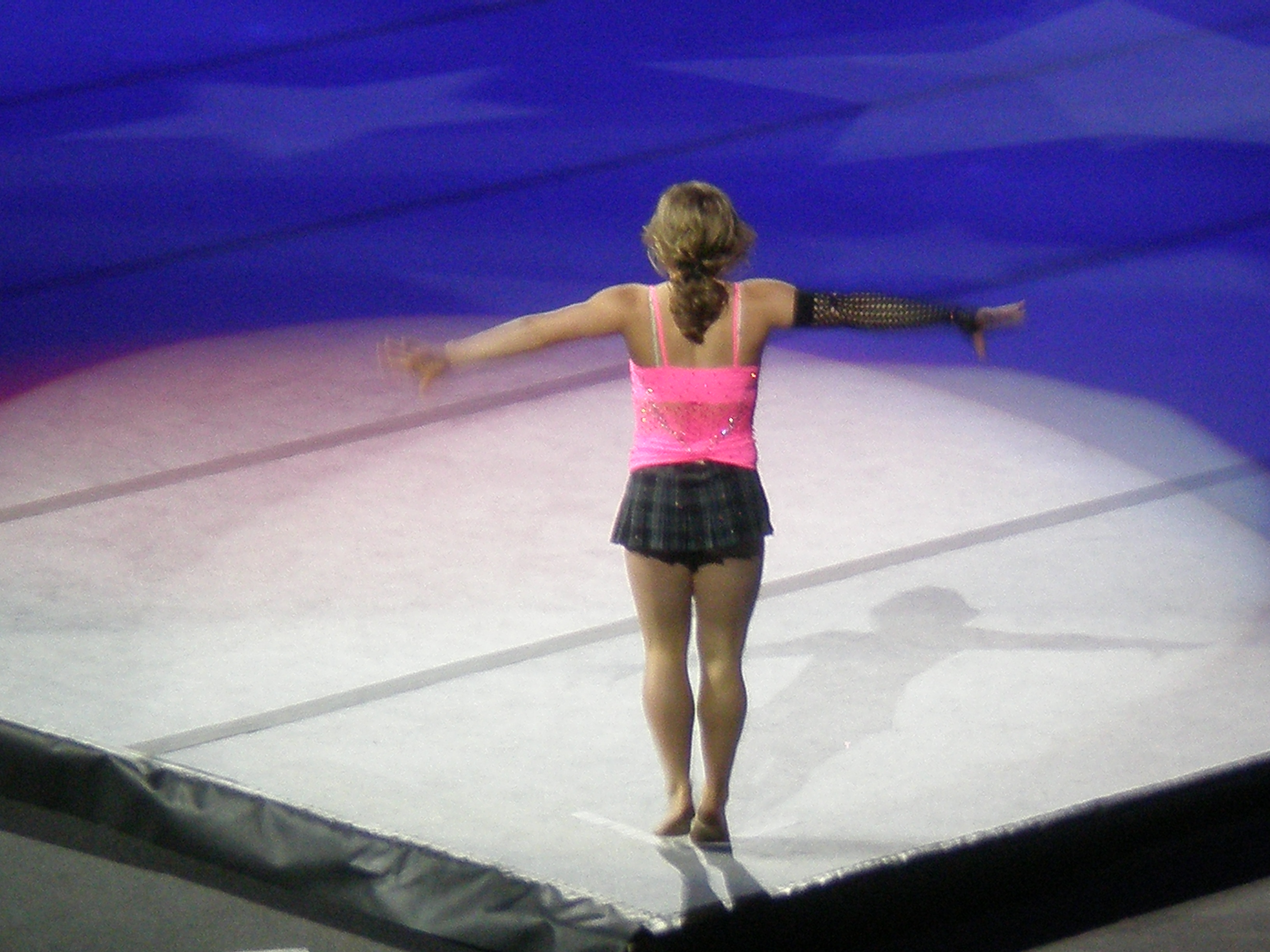 Shawn Johnson performing at the 2008 Tour of Gymnastics Superstars in San Jose, California.